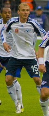 Ruslan Nakhushev in action for of FC Saturn Ramenskoe